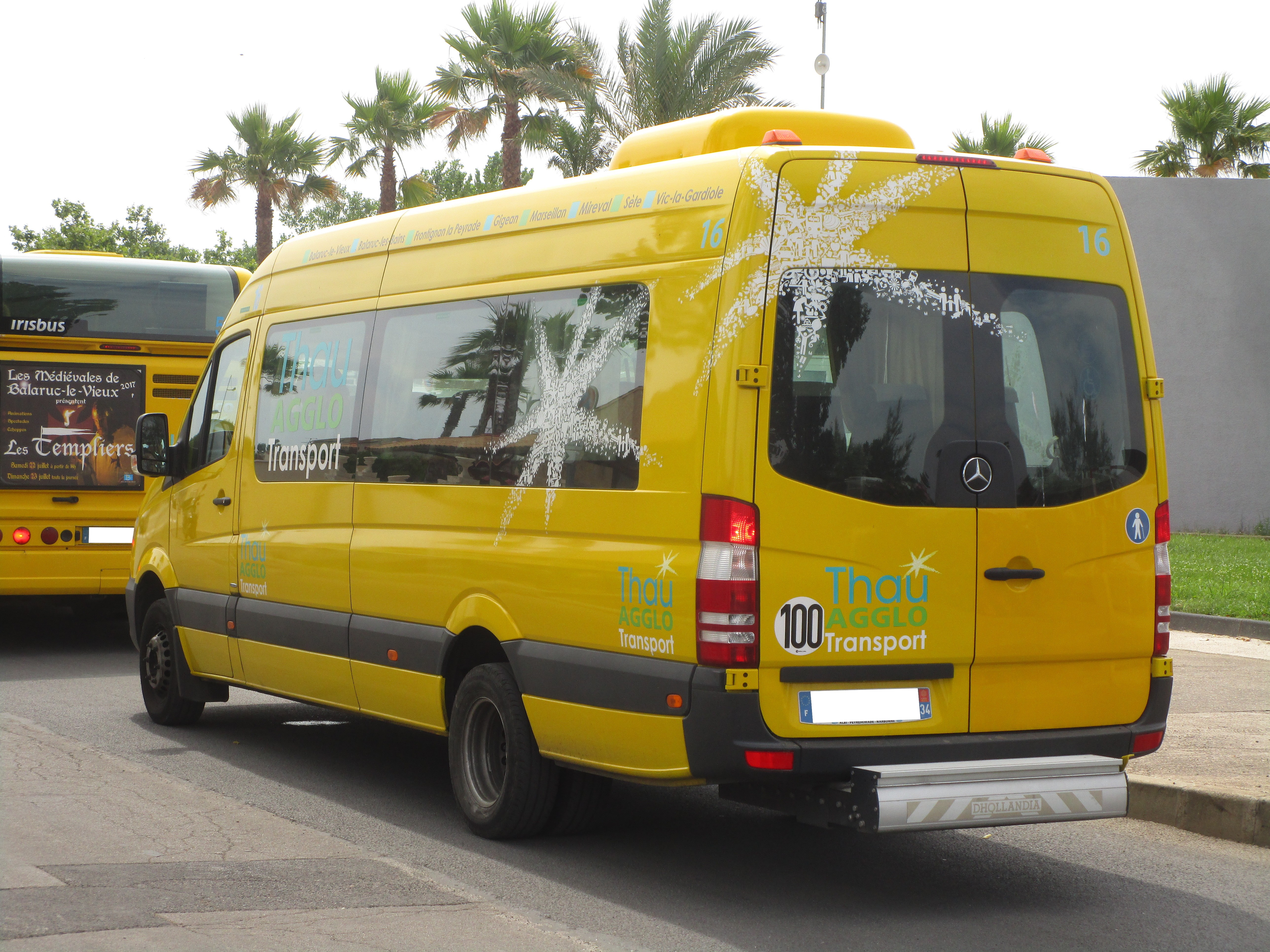 The Mercedes-Benz Sprinter n°16 of Thau Agglo Transport — in Marseillan-Plage, France — on June 27, 2017.